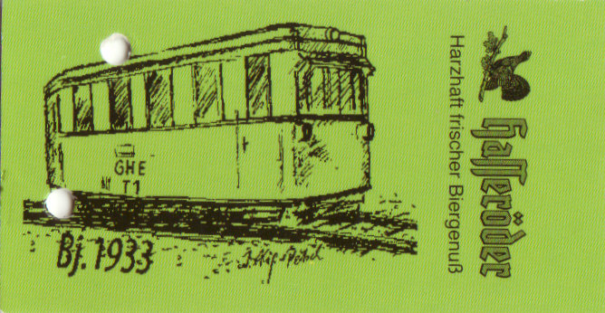 Ticket Harzer Schmalspurbahnen (front)